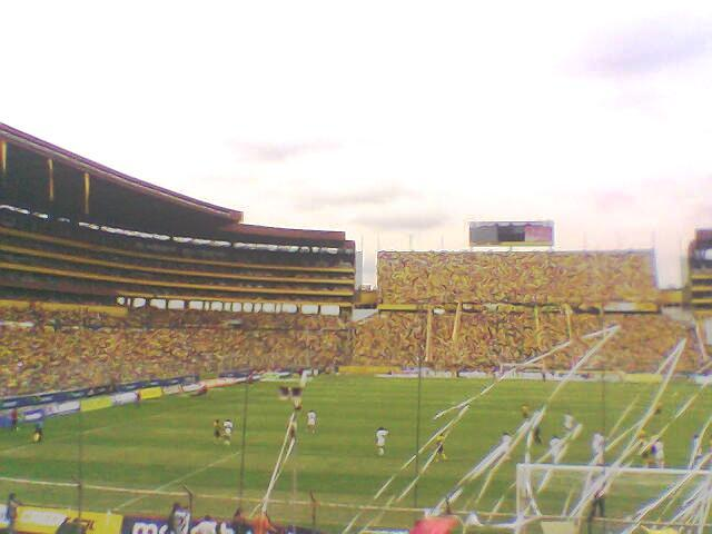 Estadio Monumental Banco Pichincha